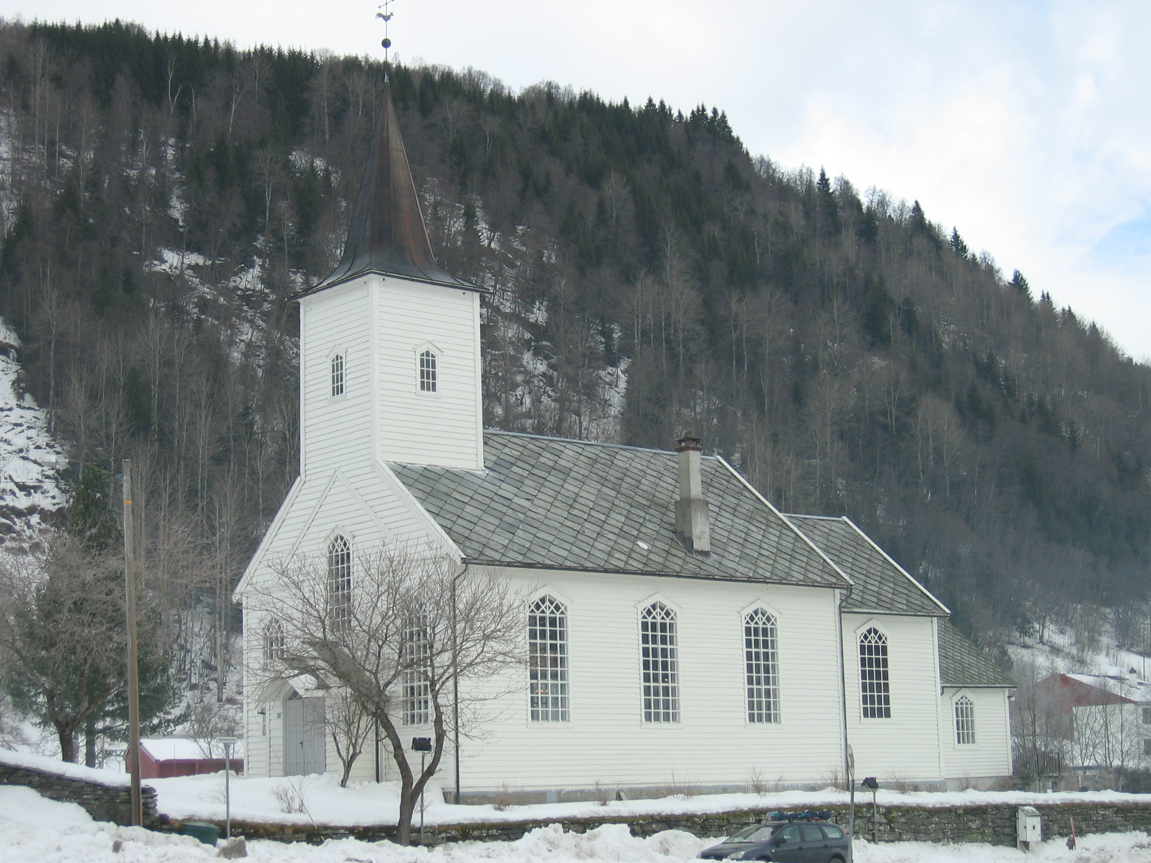 Oppheim kyrkje, Voss, Hordaland, Norway